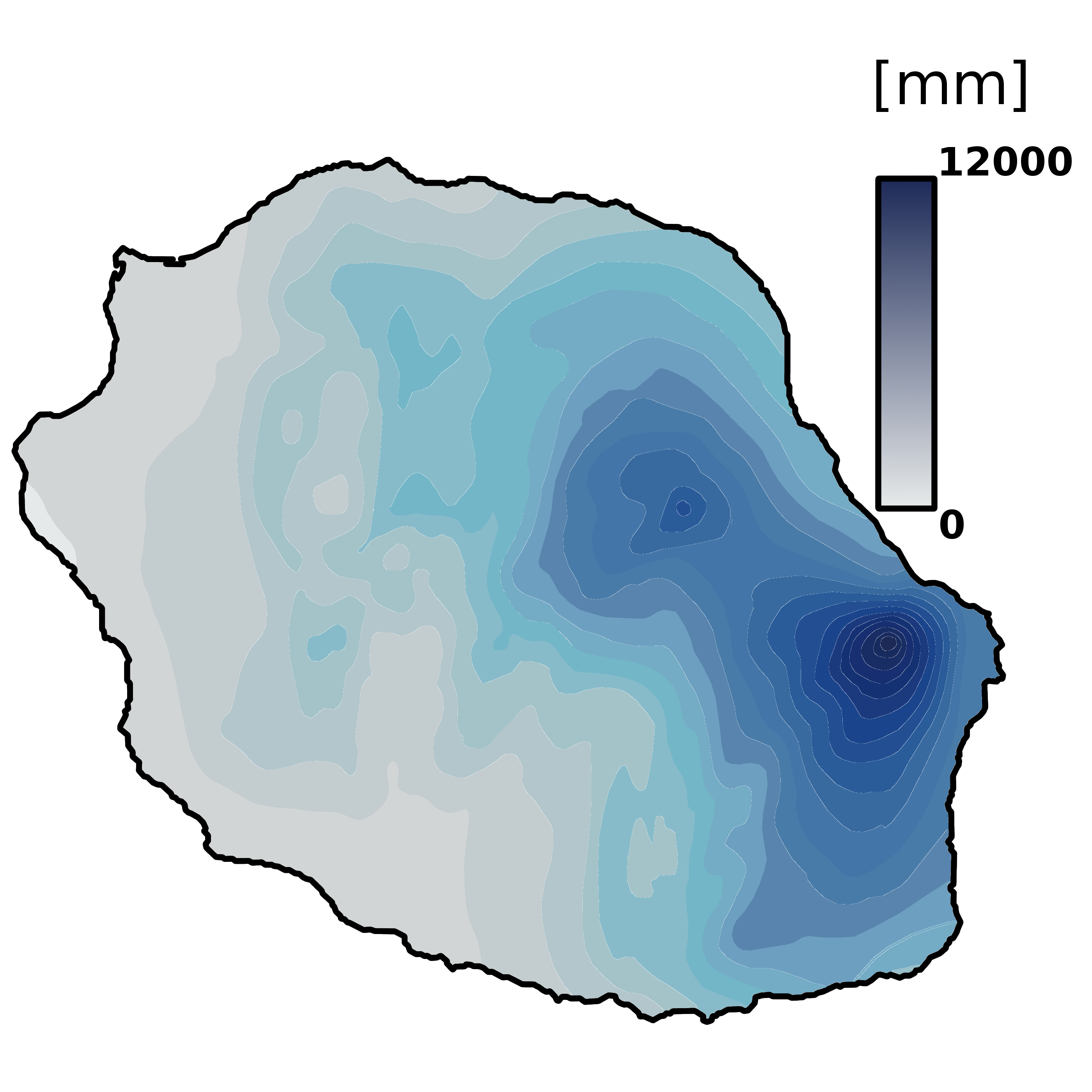 Spartial distribution of the rain in the french Réunion Island, in south western Indian Ocean.